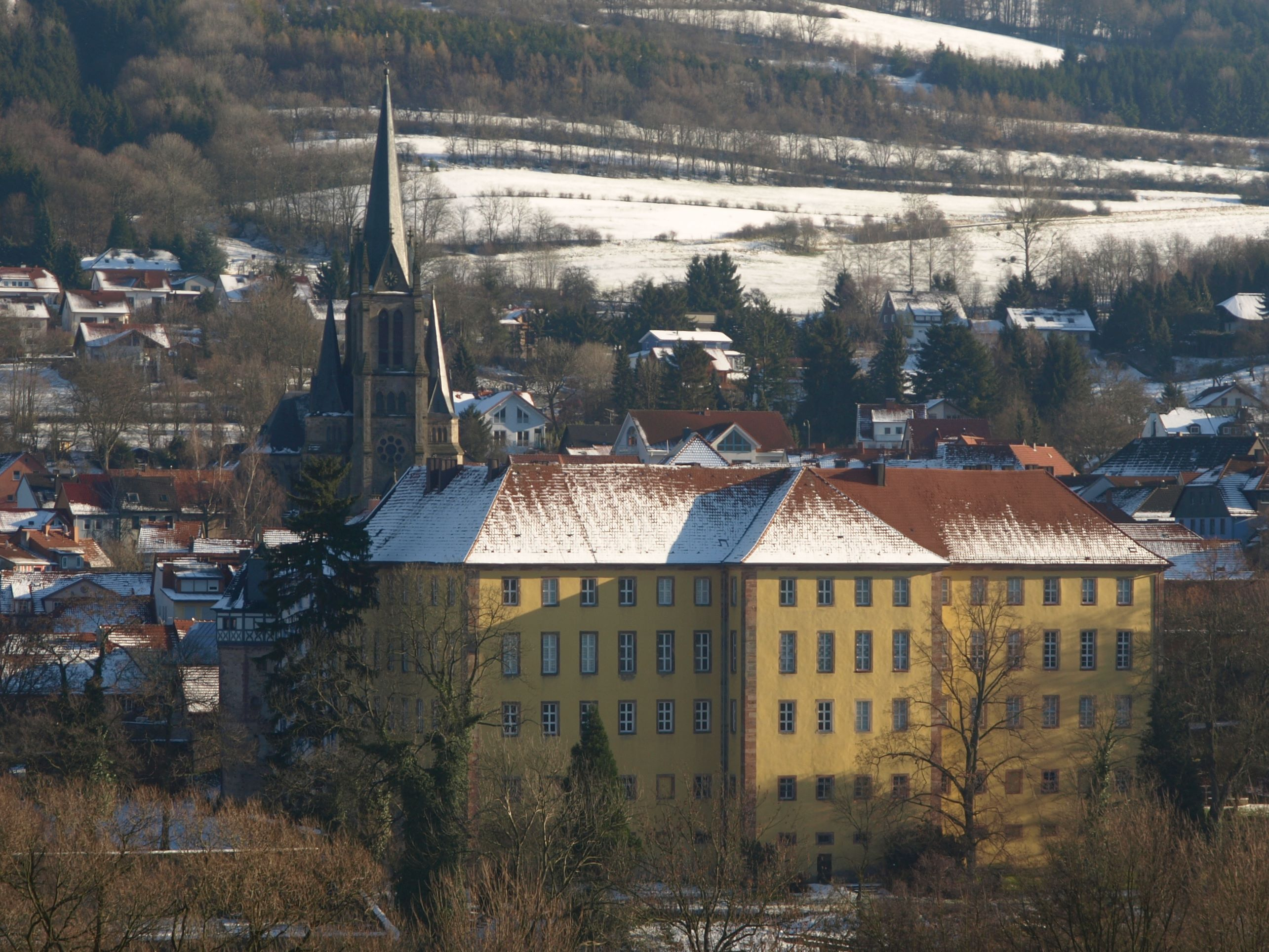 Southerly view of yellow castle (part of castle Tann). Taken from hillside of the mountain Habelberg. In the backround of the castle, there ist the church of town Tann (Rhön)